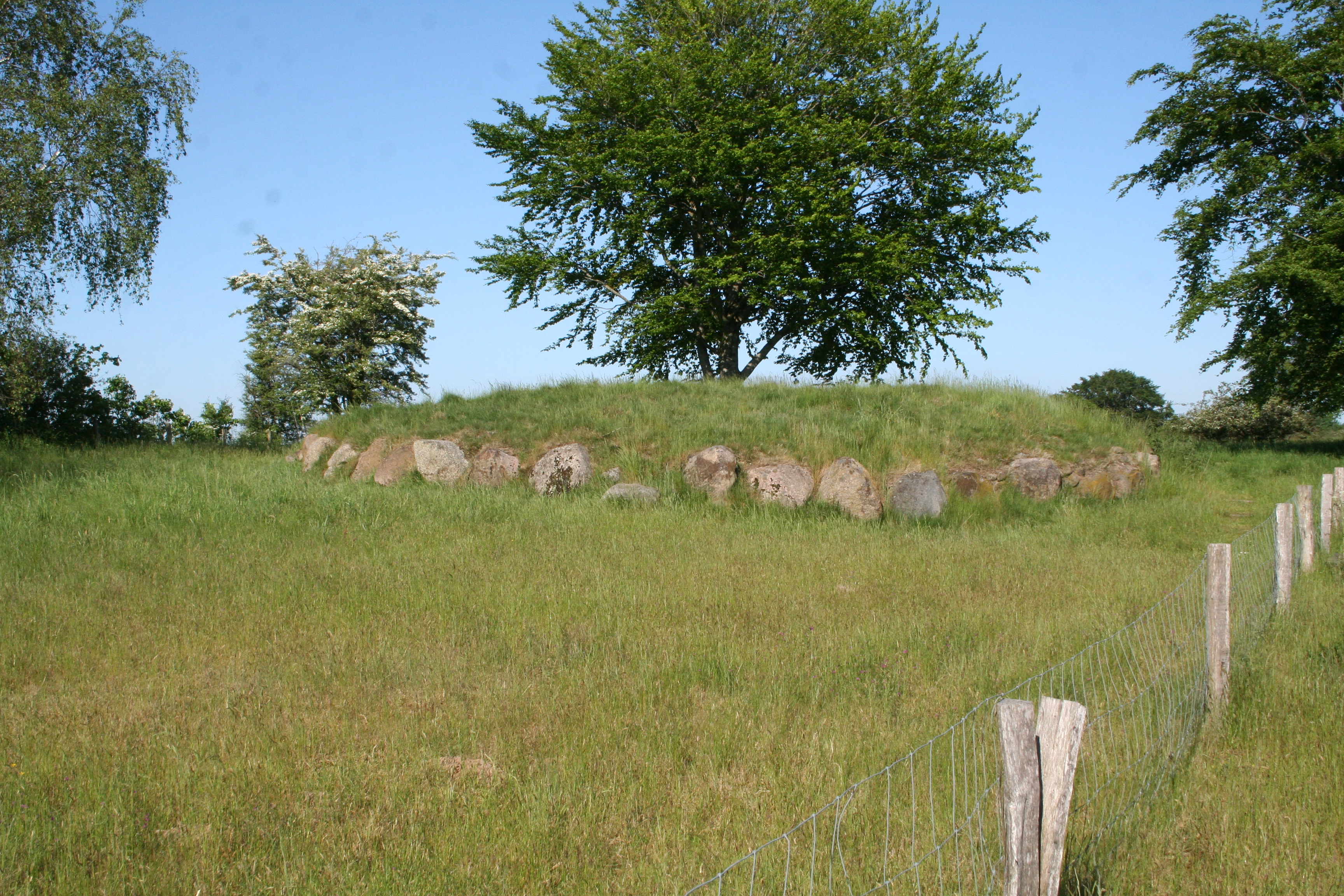 Vedsted Runddysse 1